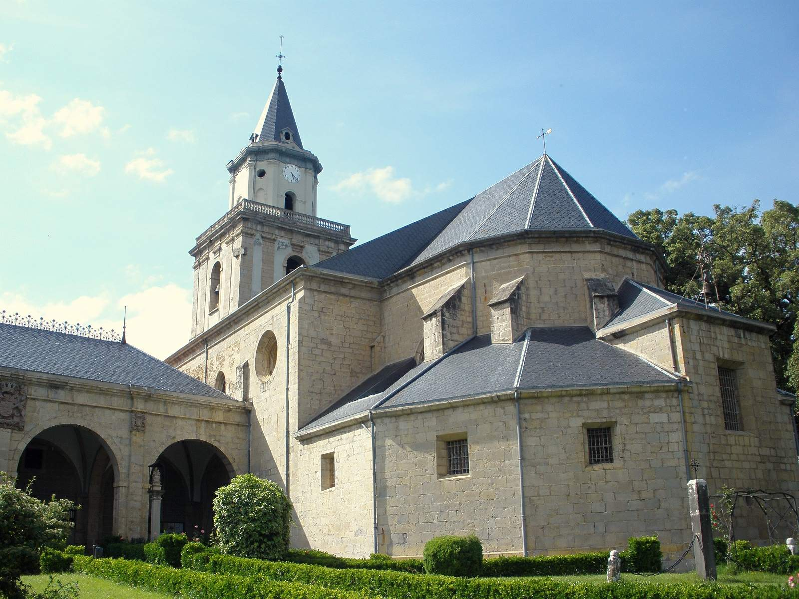 Santuario de N. S. de la Encina (Arceniega, Álava)